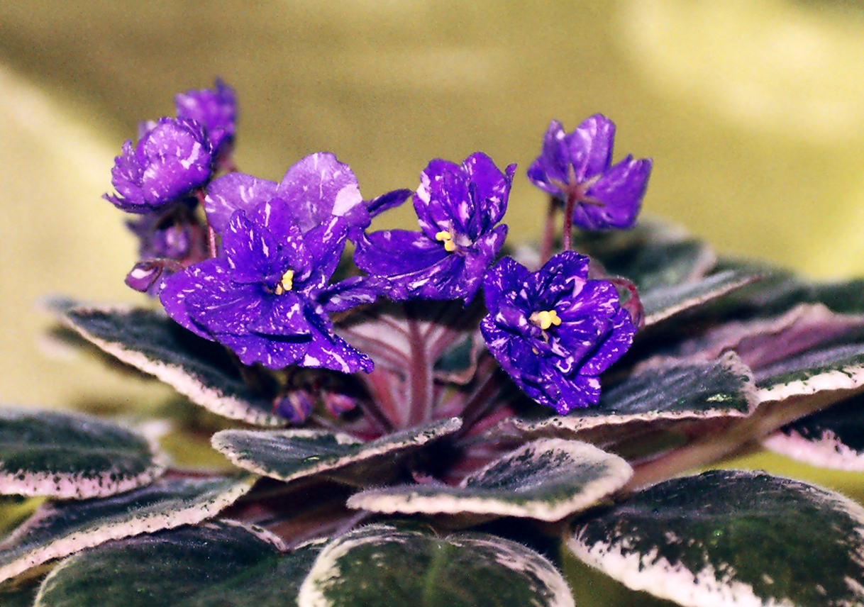 Saintpaulia ionantha 'Funambule'